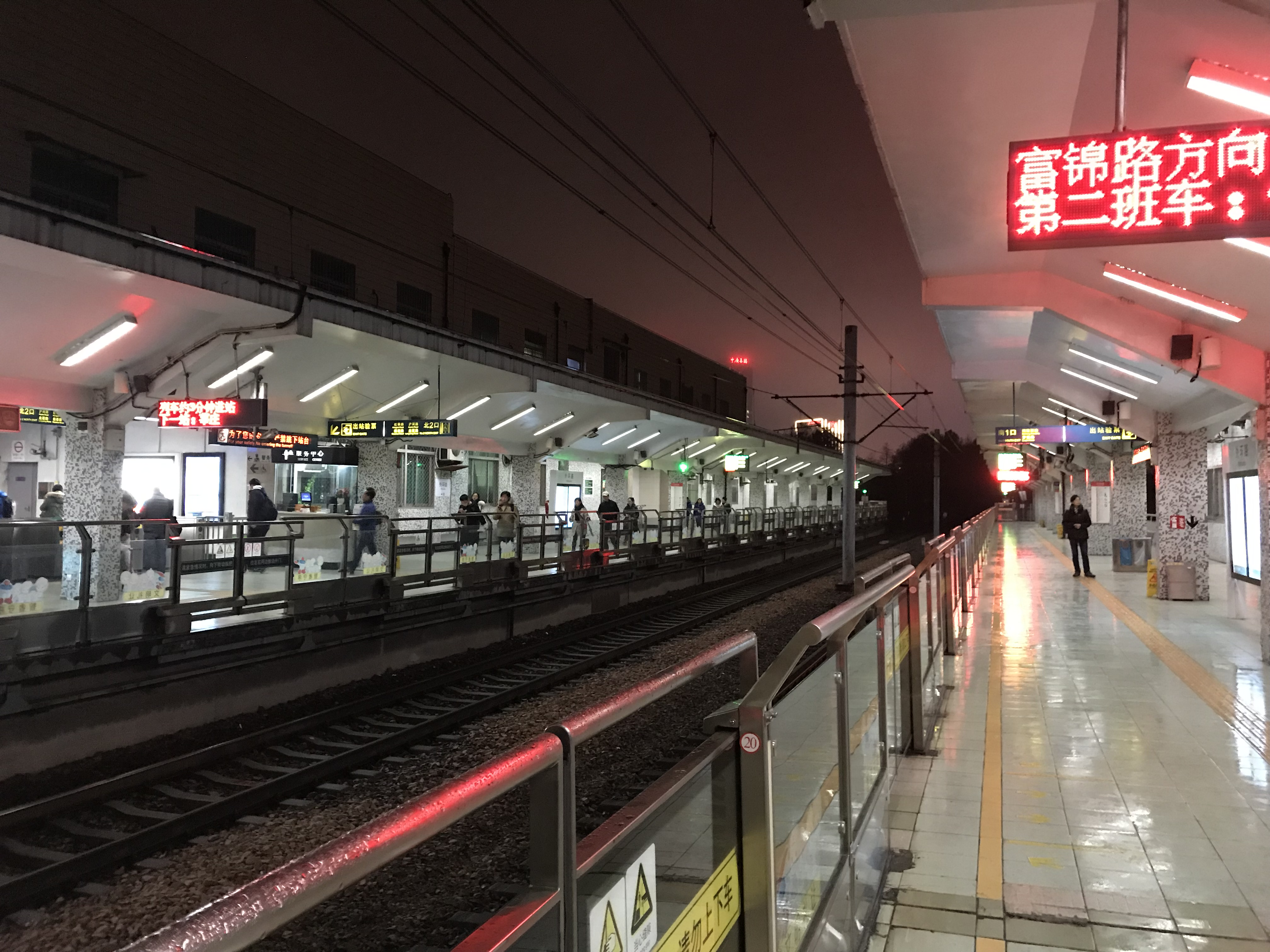 201901 Platforms at Waihuanlu Station